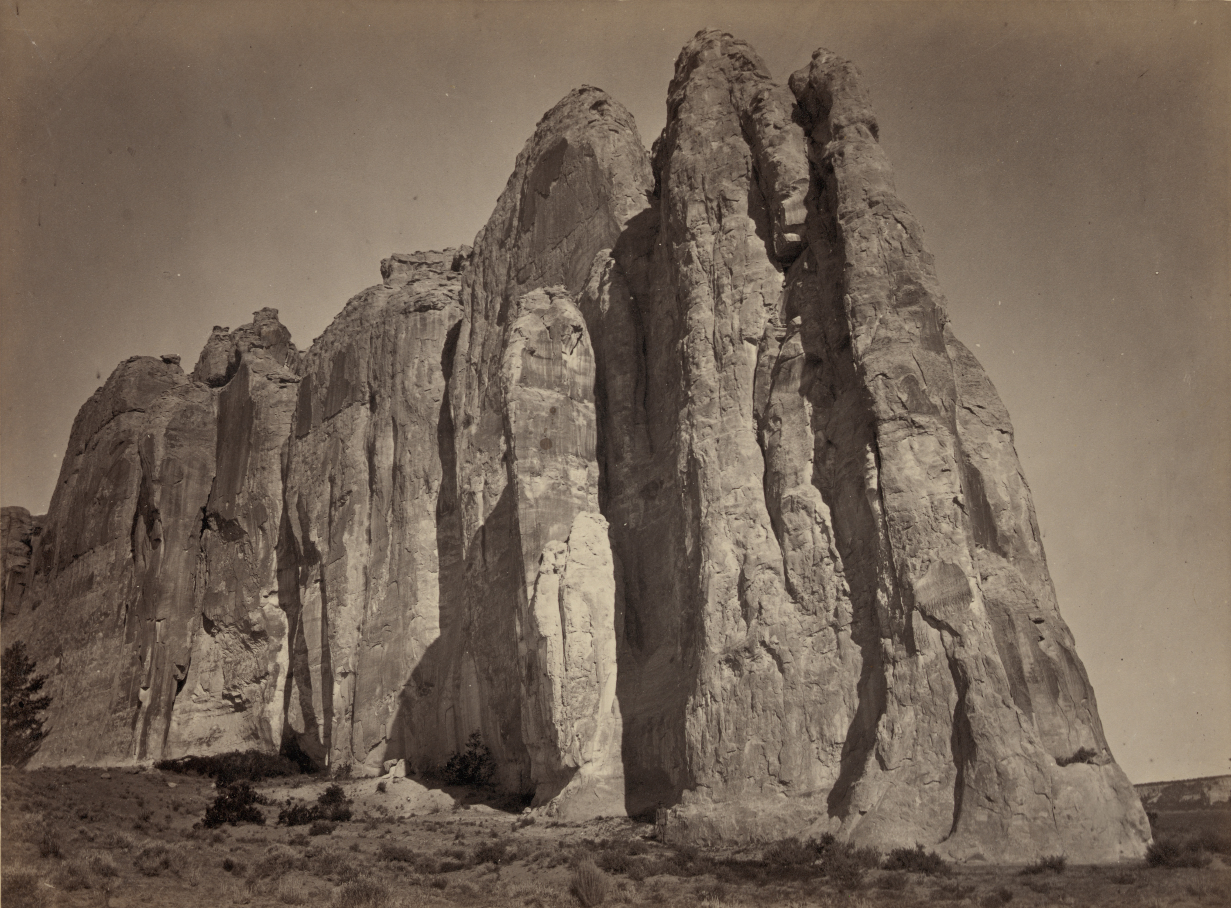 Photograph showing rock formations. Originally published: Photographs showing landscapes, geological, and other features of portions of the western territory of the United States, obtained in connection with geographical and geological explorations and surveys west of the 100th meridian, seasons of 1871, 1872, and 1873. [Washington, D.C.] : War Dept., Corps of Engineers, U.S. Army, [1875]